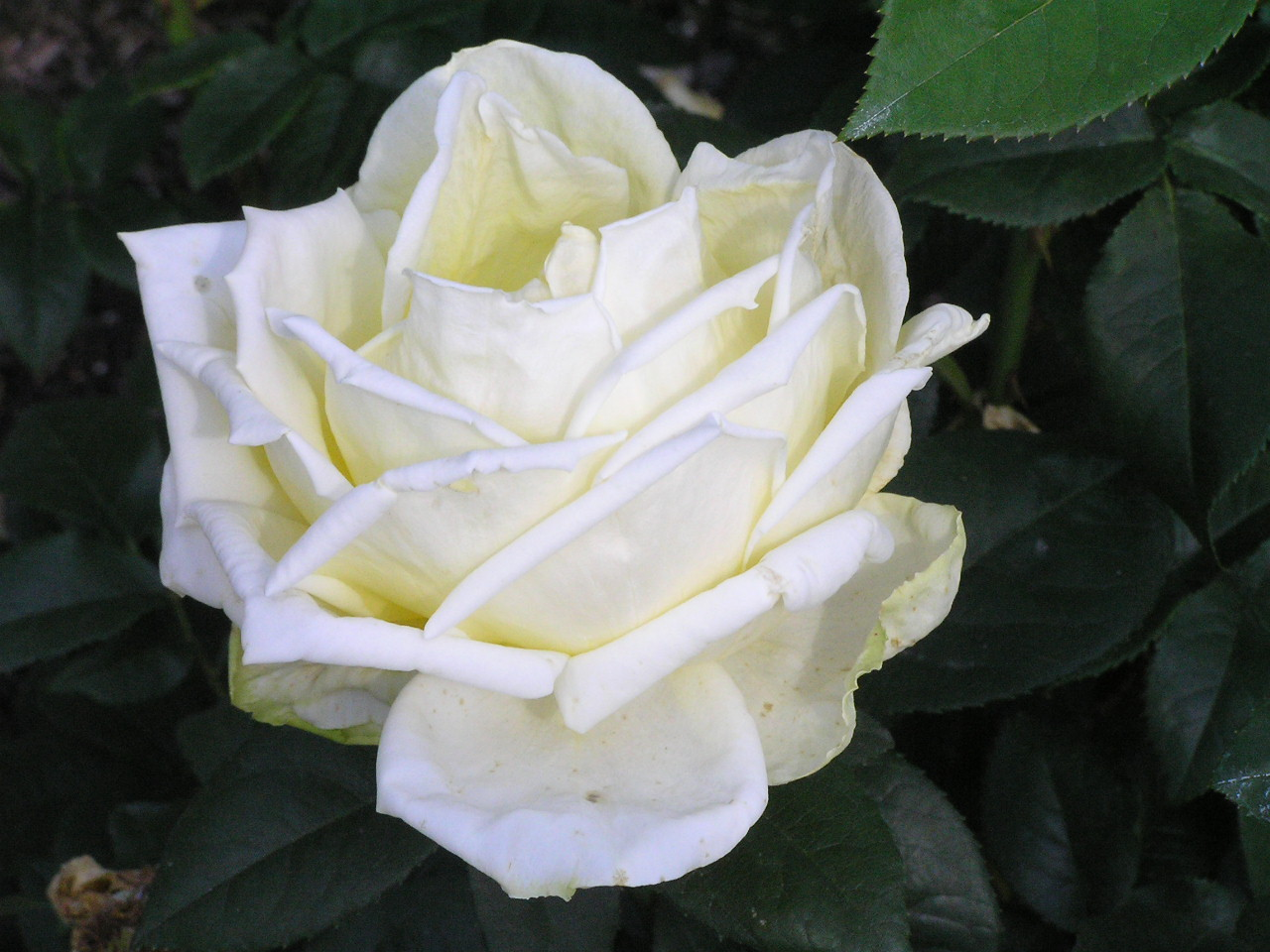 Kitaharima leisure park north maidens rose Tianjin